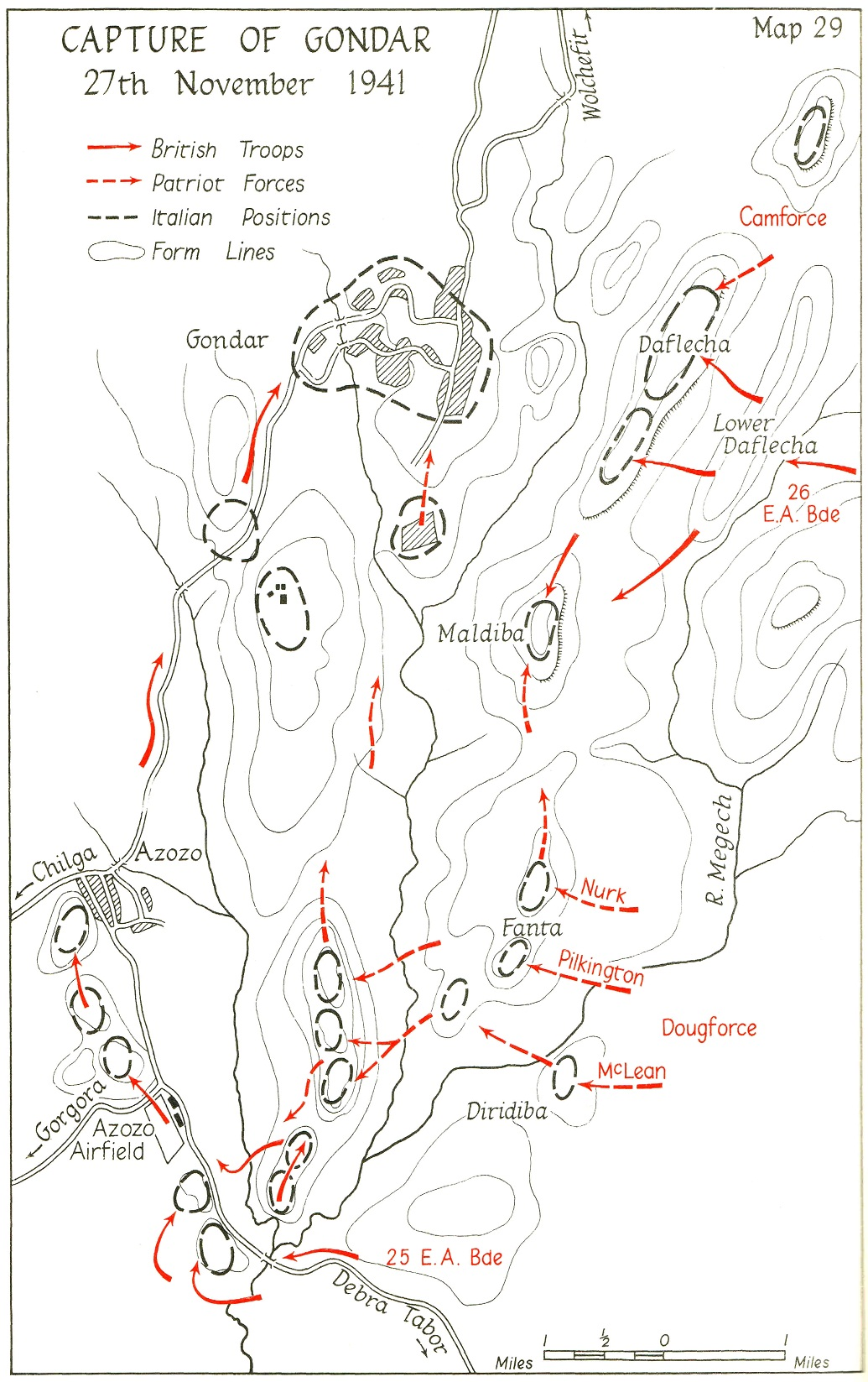 Map of British and Ethiopian movements against the Italians at the Battle of Gondar, November 1941